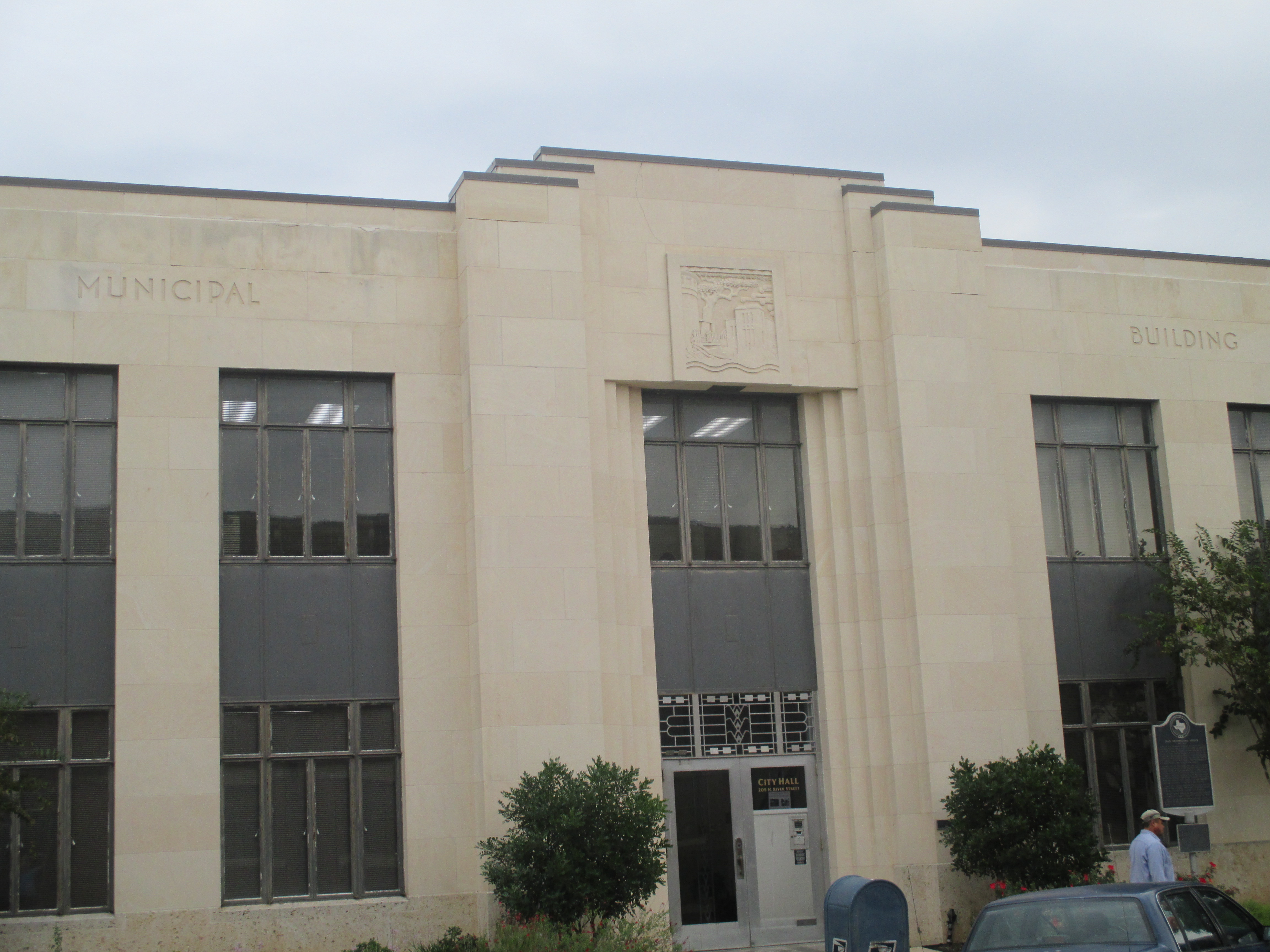 I took photo with Canon camera of Municipal Building in Seguin, TX.